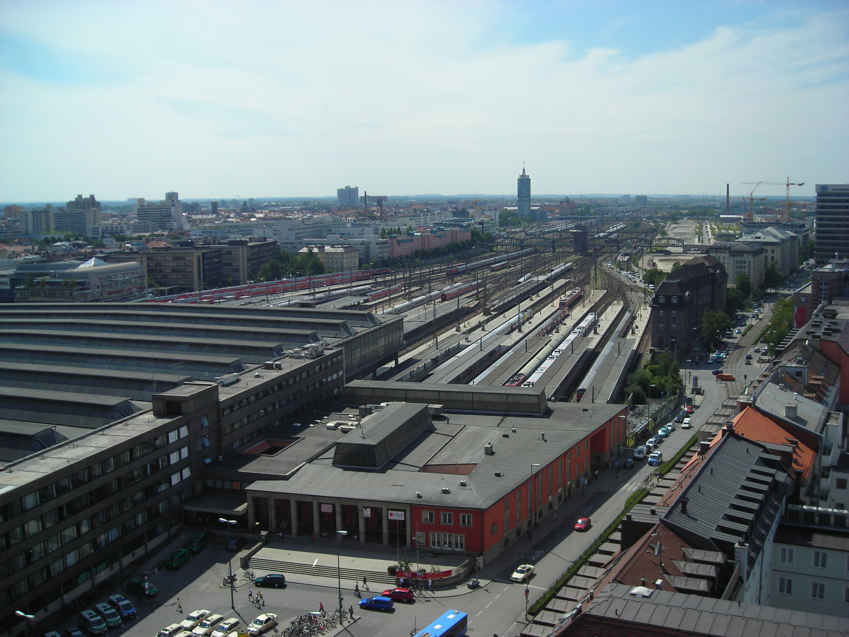 Main Railway Station of Munich, Germany — partial aerial view looking westward, taken from nh Hotel, 15th floor.